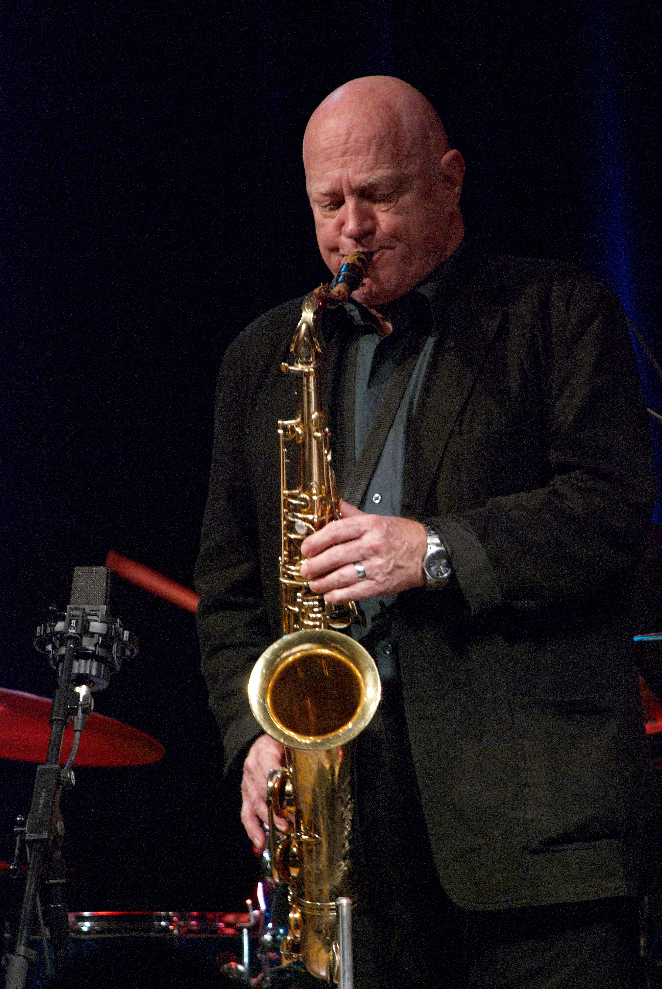 American saxophonist Don Menza at a concert in Fürth, Germany together with the Groove Legend Orchestra